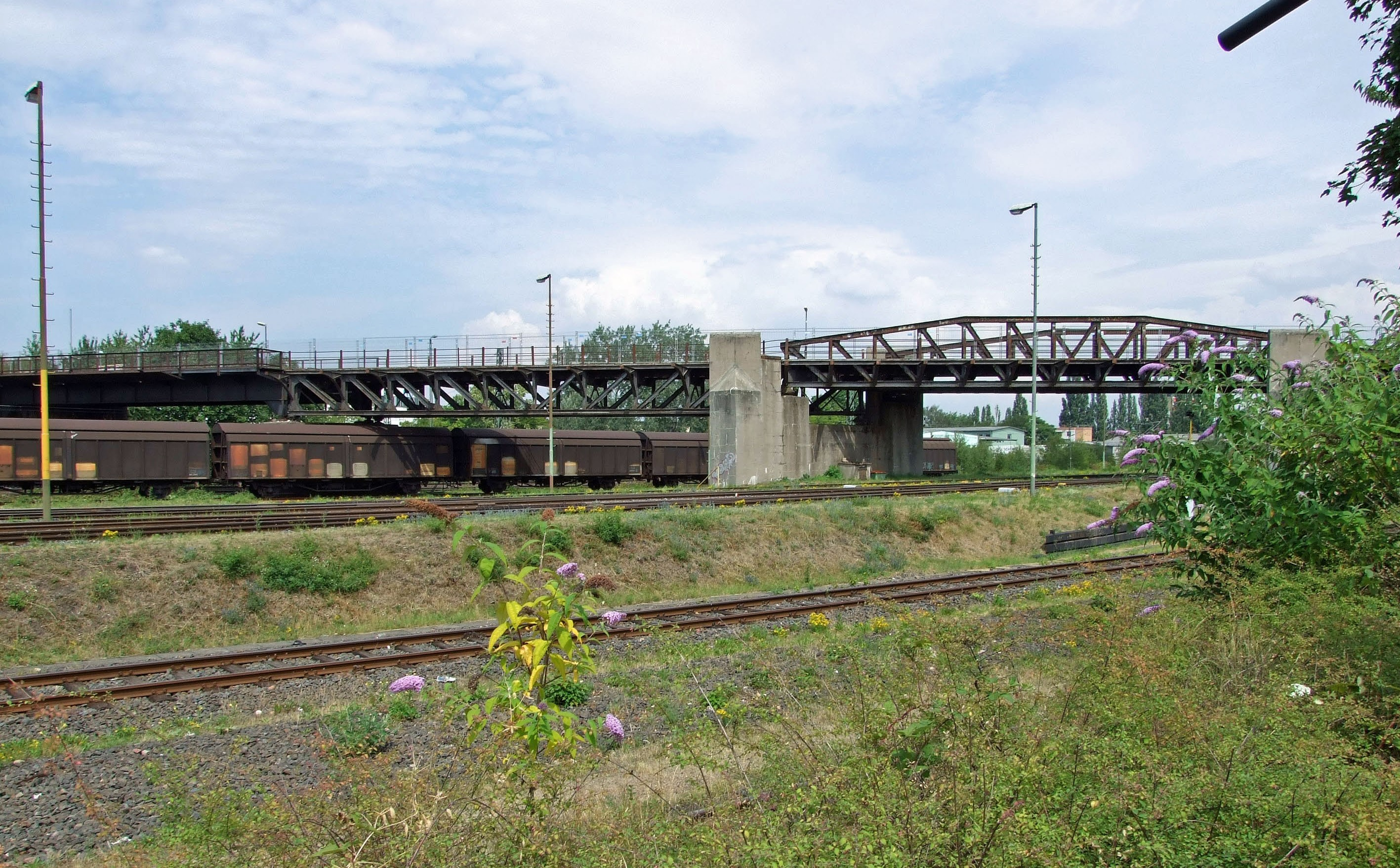 Lahmeyer Bruecke a former goods-train-bridge (in combination with footbridge). Now only a footbridge.